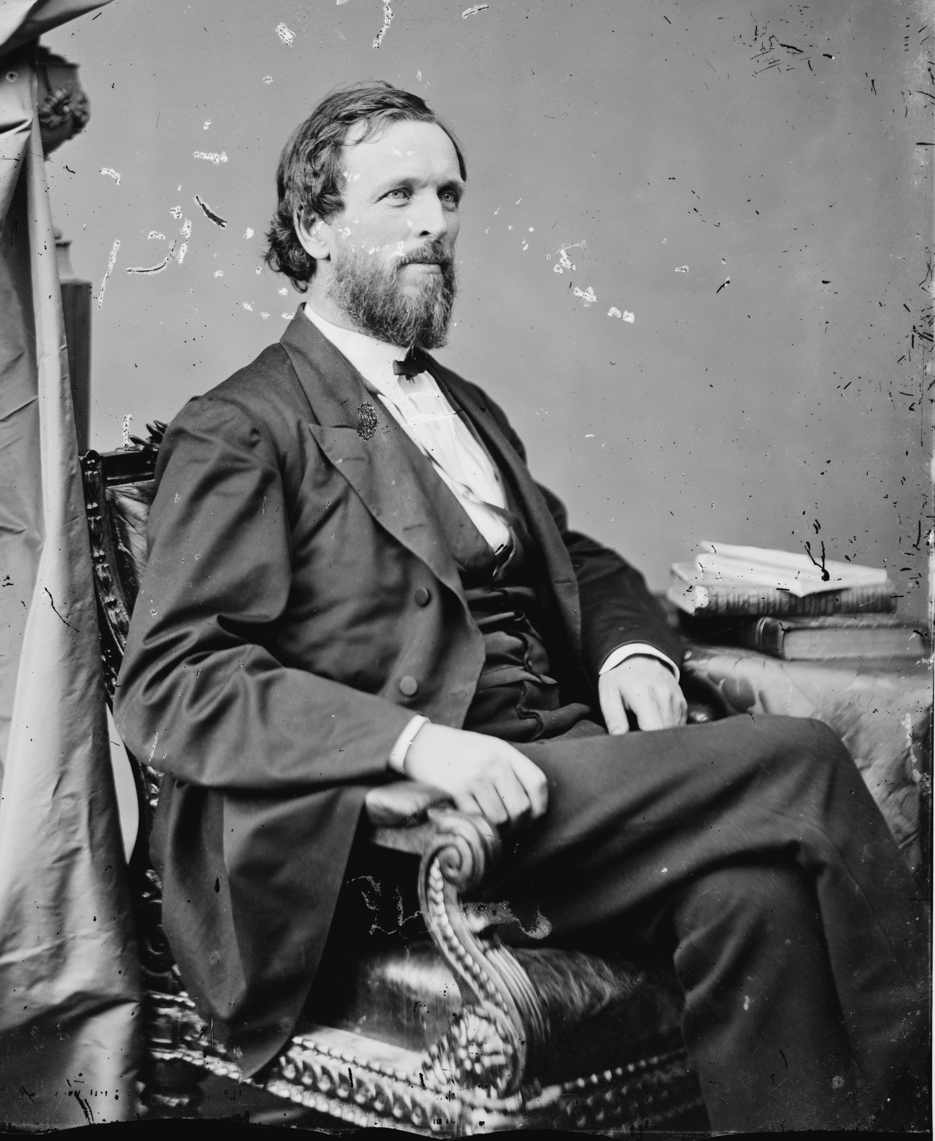 Benjamin F. Rice. Library of Congress description: "Senator [B. F.] Rice".